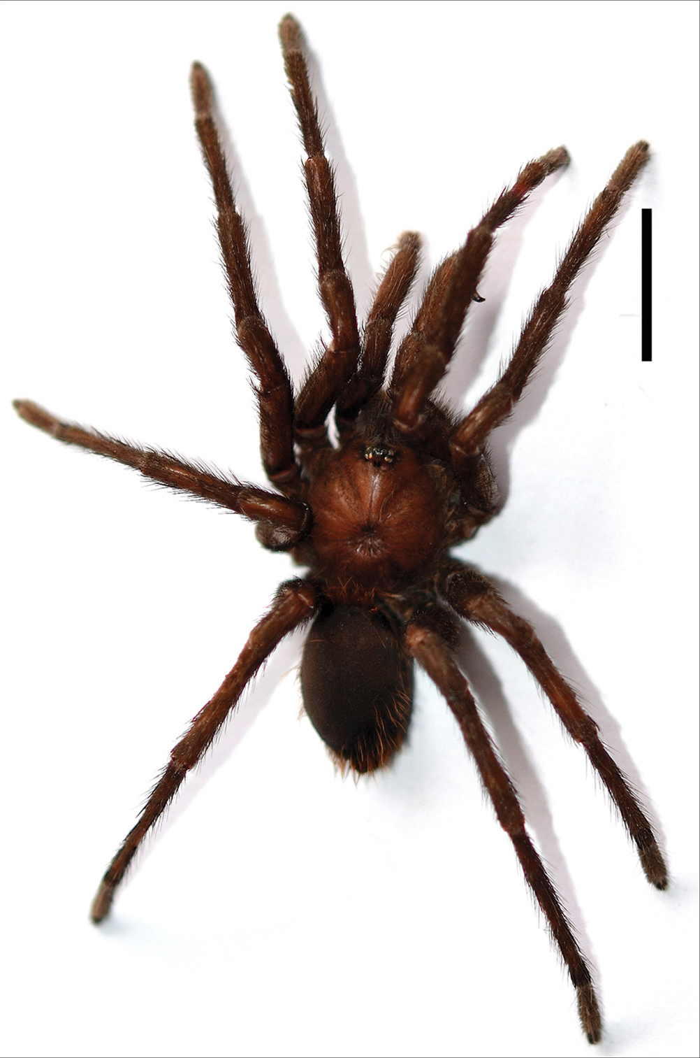 Kankuamo marquezi Dorsal view (Male)